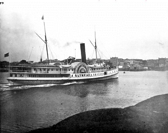 Sidewheel steamship Olympian arriving at Victoria, BC in 1890s.